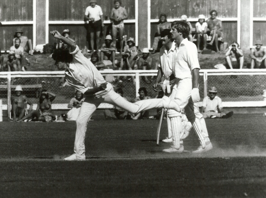 February 1978, Basin Reserve, Wellington AAQT 6539 W3537 box 16 L7/15/1/210 Archives New Zealand